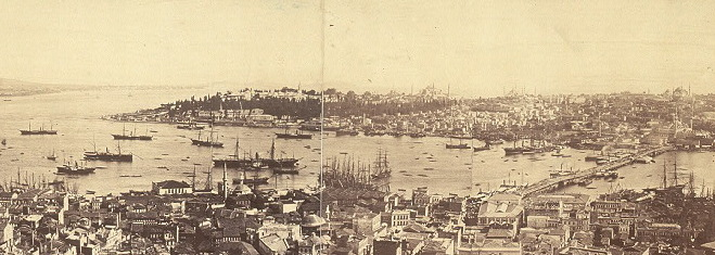 Photo-panoramic view of Constantinople, 1876. Albumn print. From: Panoramic photographs (Library of Congress)